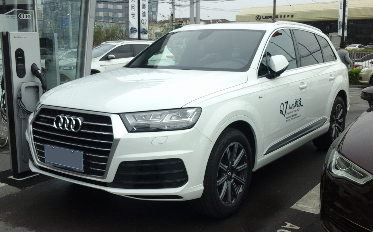 Audi Q7 4M photographed in Shanghai, China.